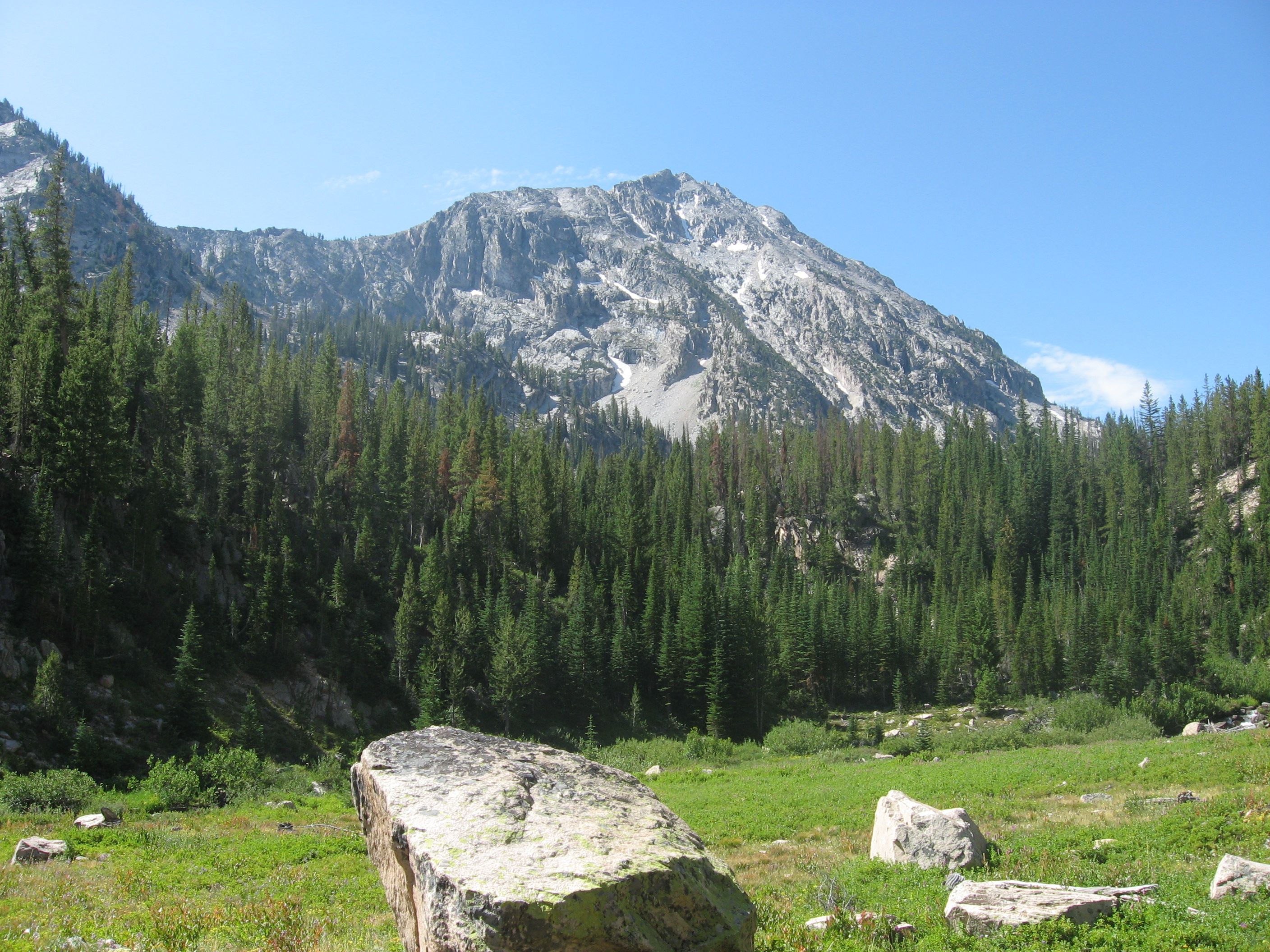 Parks Peak in the Sawtooth Mountains of Sawtooth National Recreation Area, Idaho